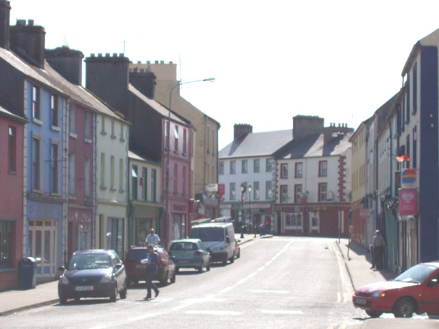 Swinford town